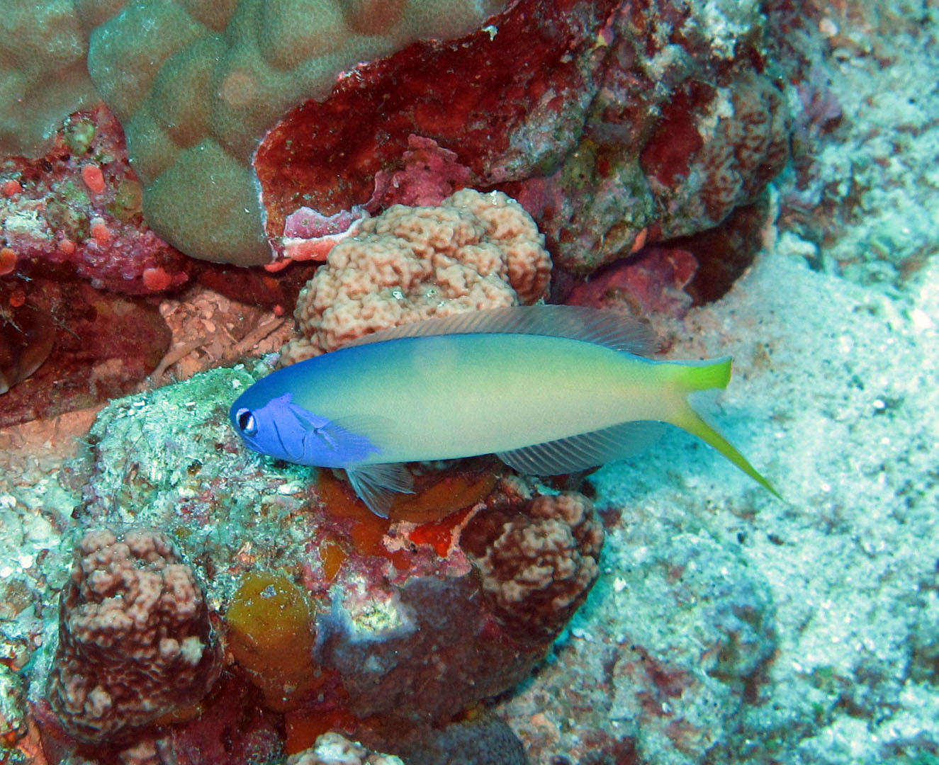 Bluehead tilefish, Starck's tilefish, Hoplolatilus starcki Randall & Dooley, 1974